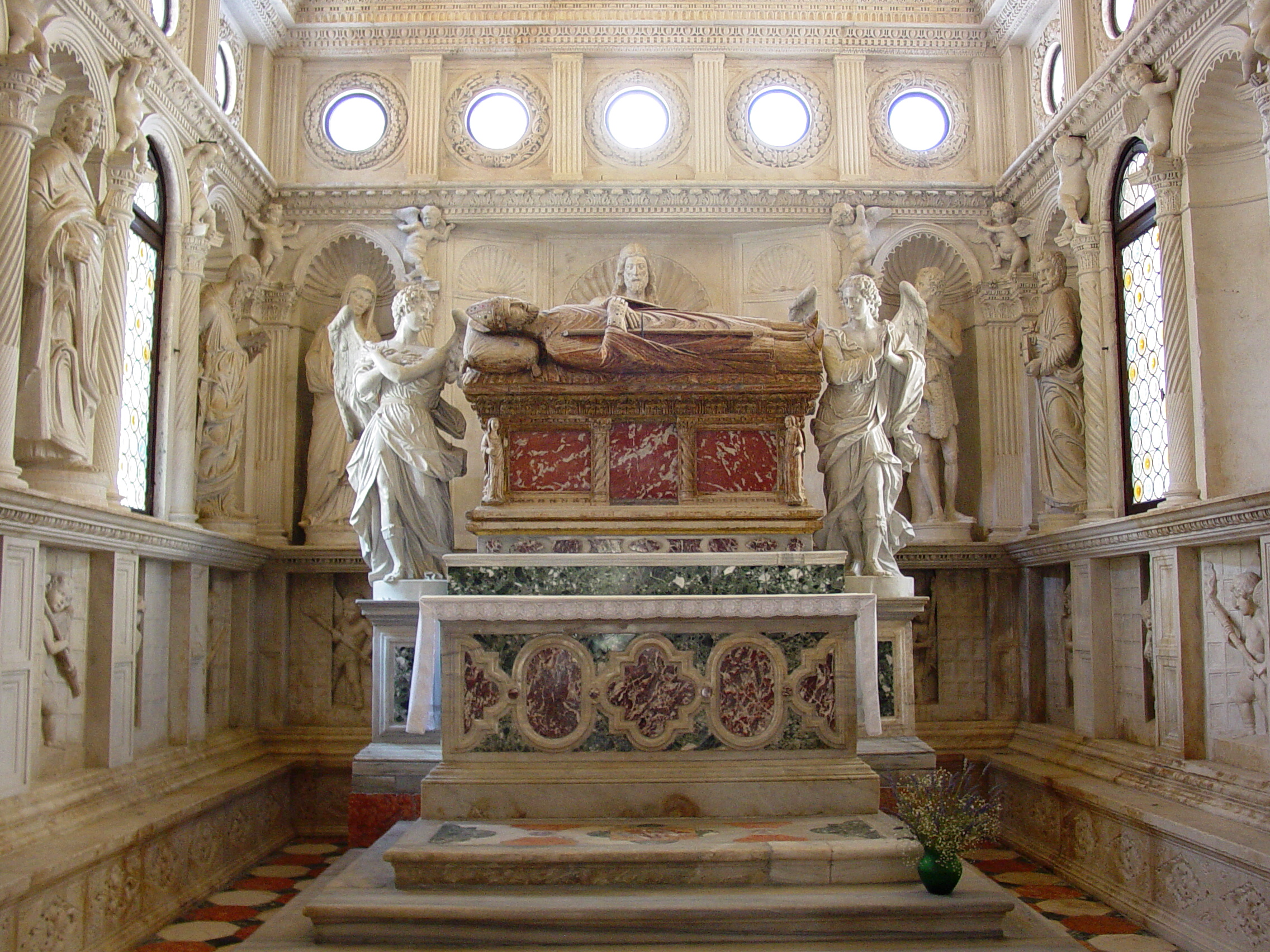 Cathedral of St. Lovro, Trogir, Croatia. June 2004.